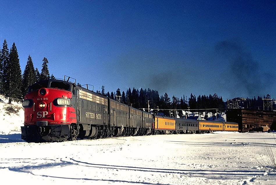 SP 6446 Westbound on the now gone #1 track at the summit. This is the old CP main. Summit Tunnel is covered by the remaining short section of wooden snow shed. Note the ice from the water fill on the side of the locomotive.